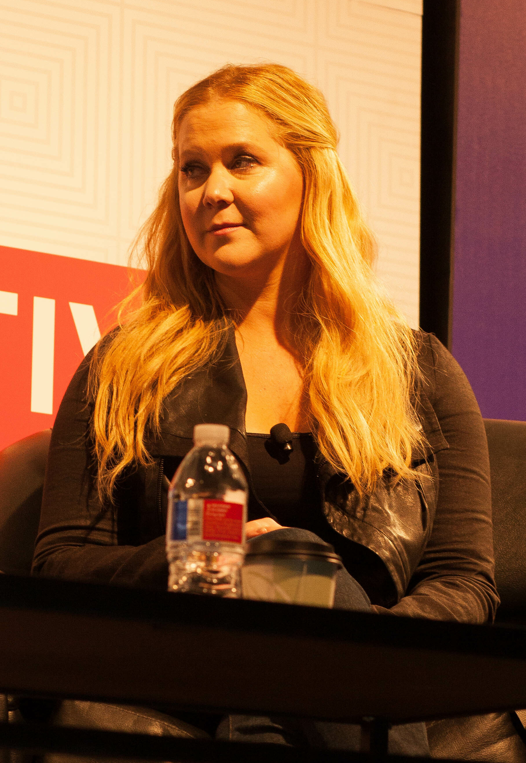 Amy Schumer at 2015 SXSW on March 16, 2015.